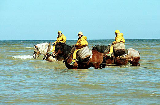 Shrimpers on horseback - Eastdunkirk (Belgium)